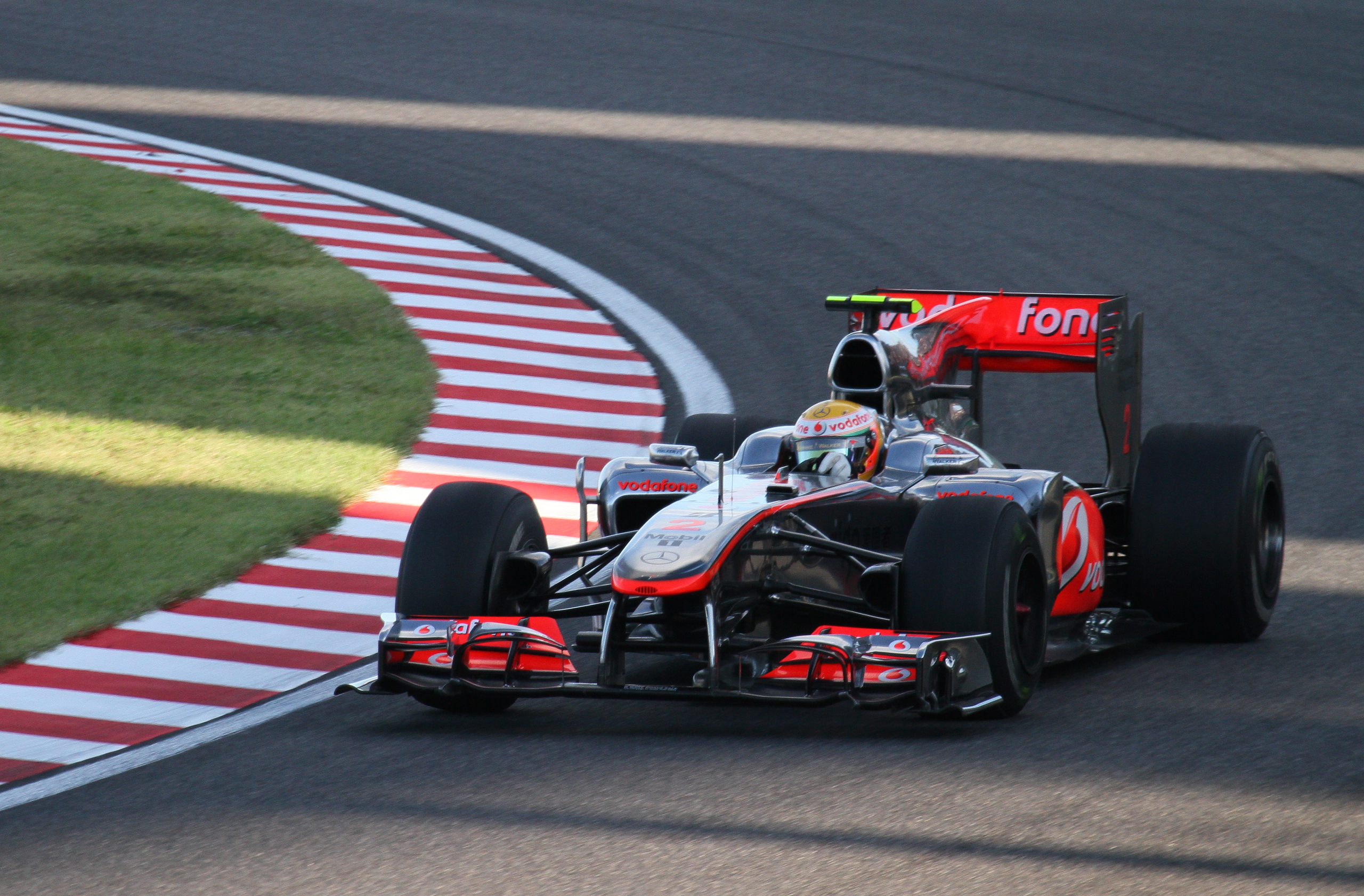 Formula One 2010 Rd.16 Japanese GP: Lewis Hamilton (McLaren) during the race.